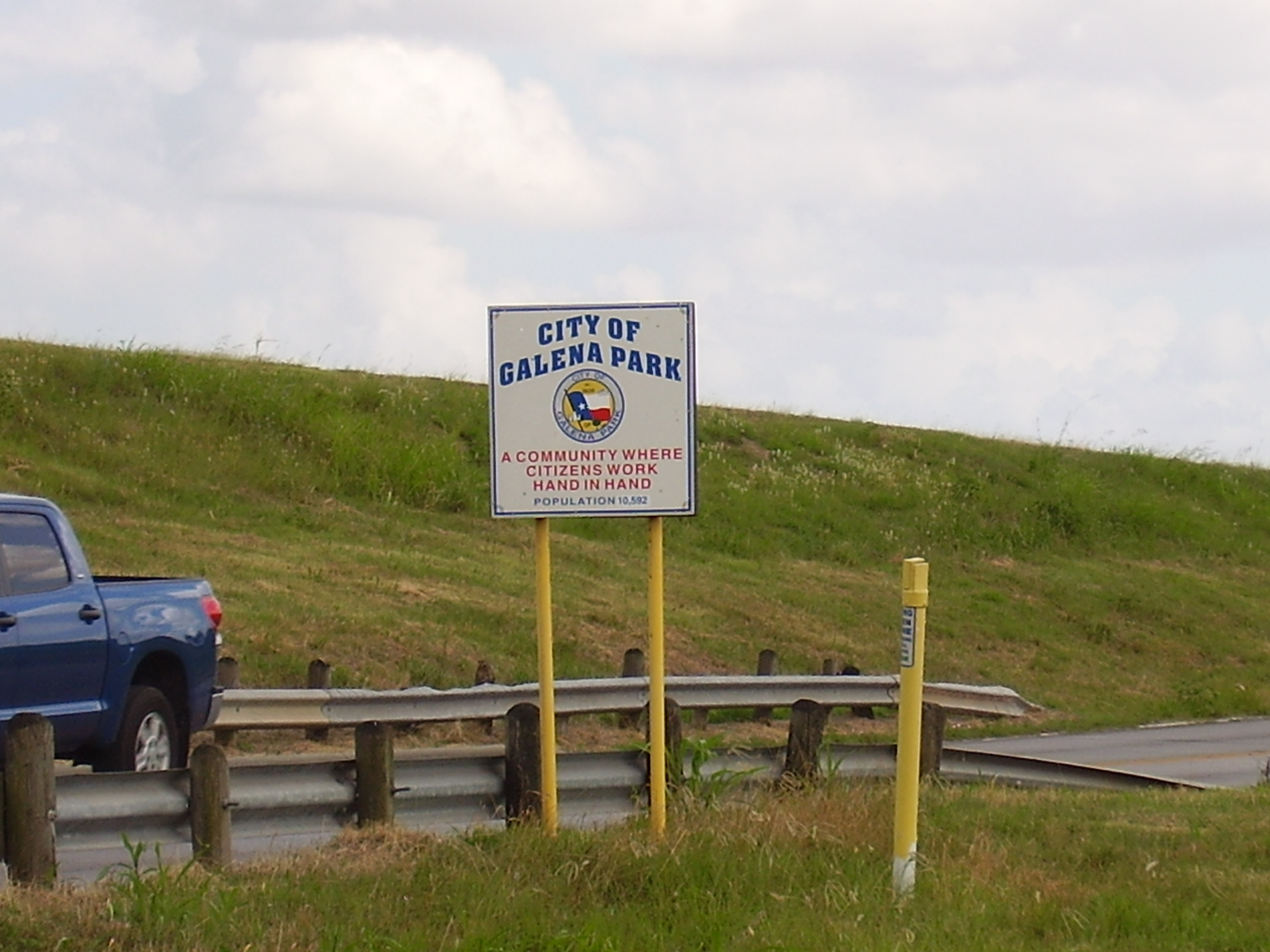 Galena Park welcome sign